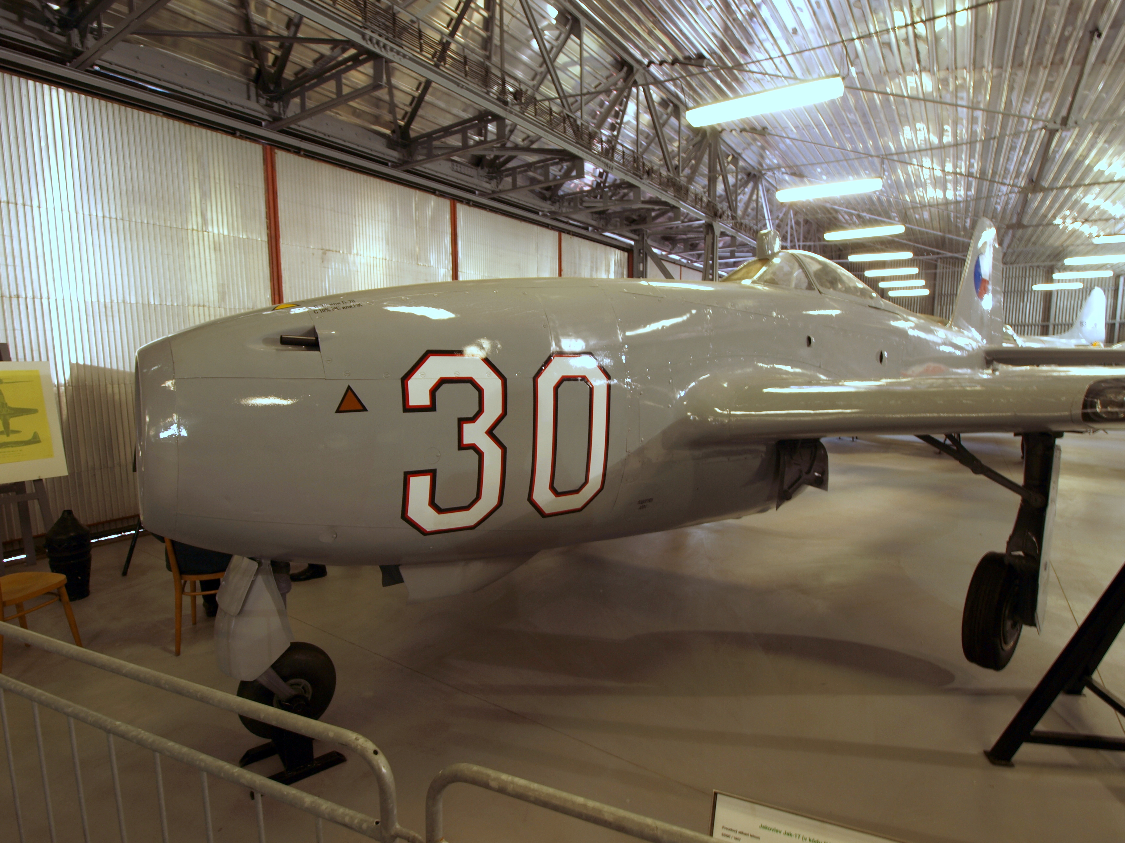 Yakovlev Yak-17 Feather (30), IS-10001. Photograph taken without a tripod (was not allowed!).